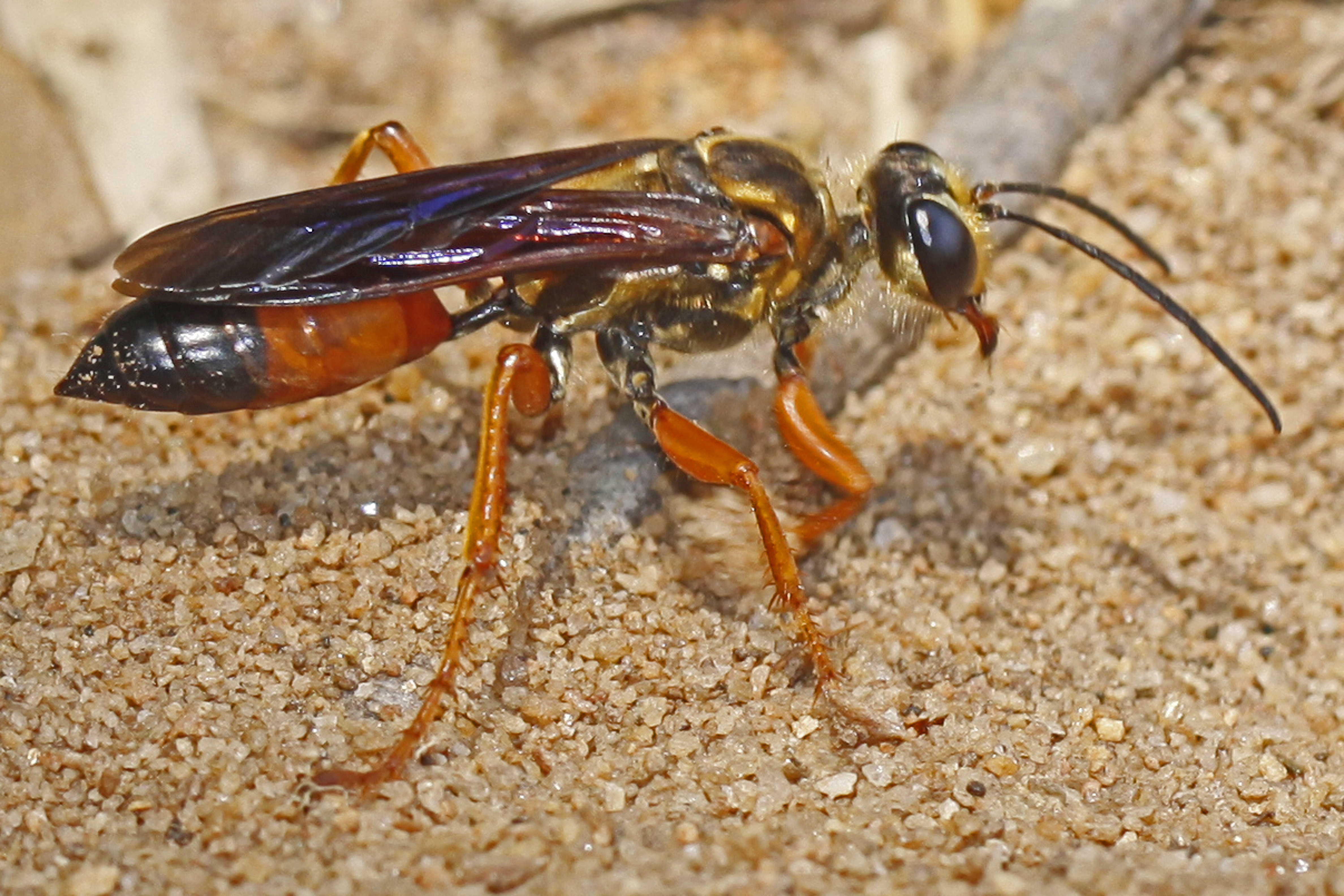 Great Golden Digger Wasp - Sphex Ichneumoneus, Juliette, Ga